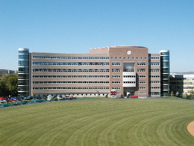 The Theory Center at Cornell University. Allen B. MacKenzie Archived at: on Jan 12, 2006 CC